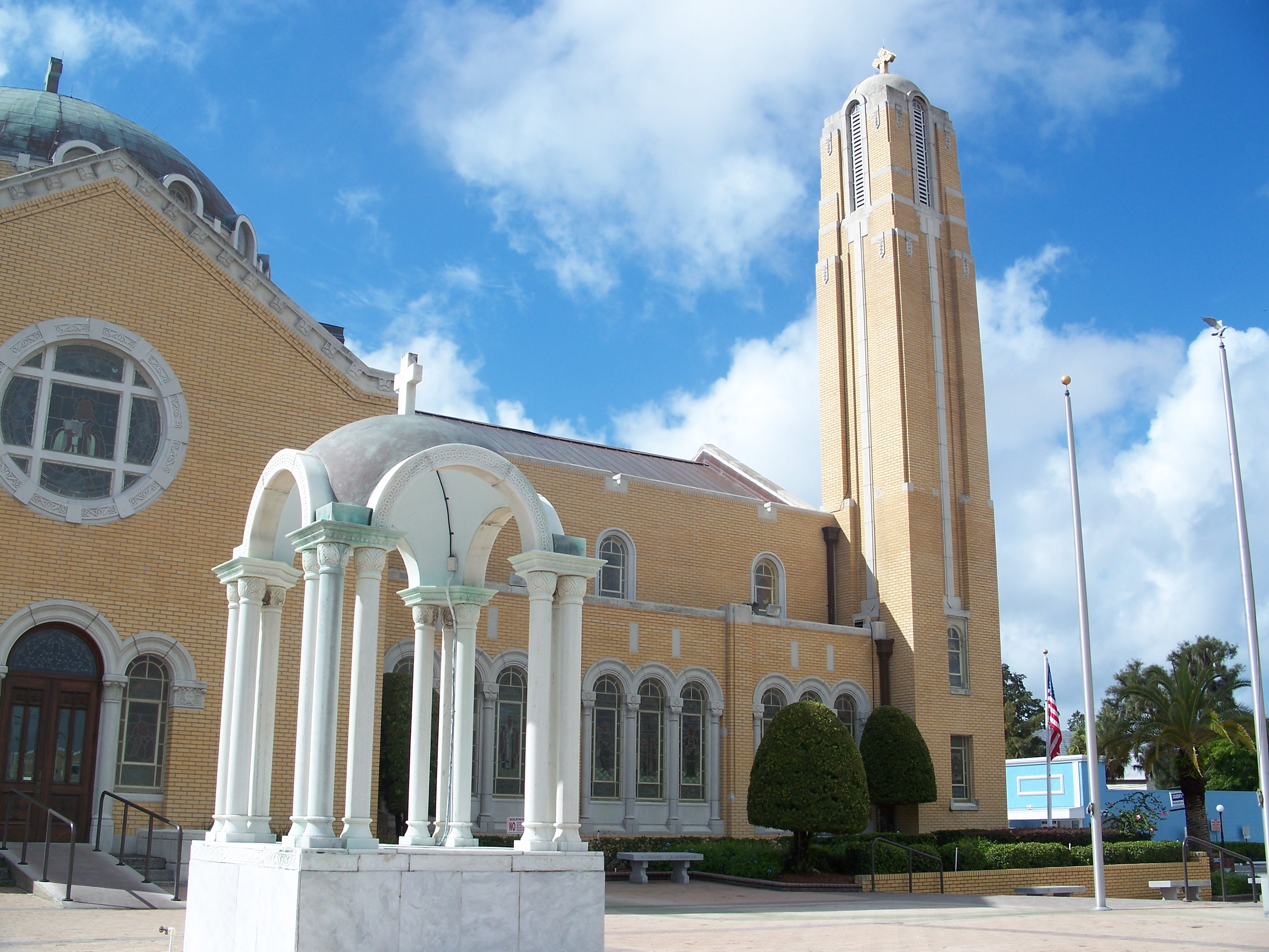 St. Nicholas Cathedral in the Tarpon Springs Historic District, in Tarpon Springs, Florida